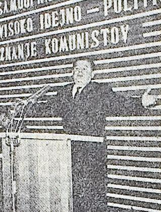 Paško Romac (1913-1982), Croatian-Serbian politician